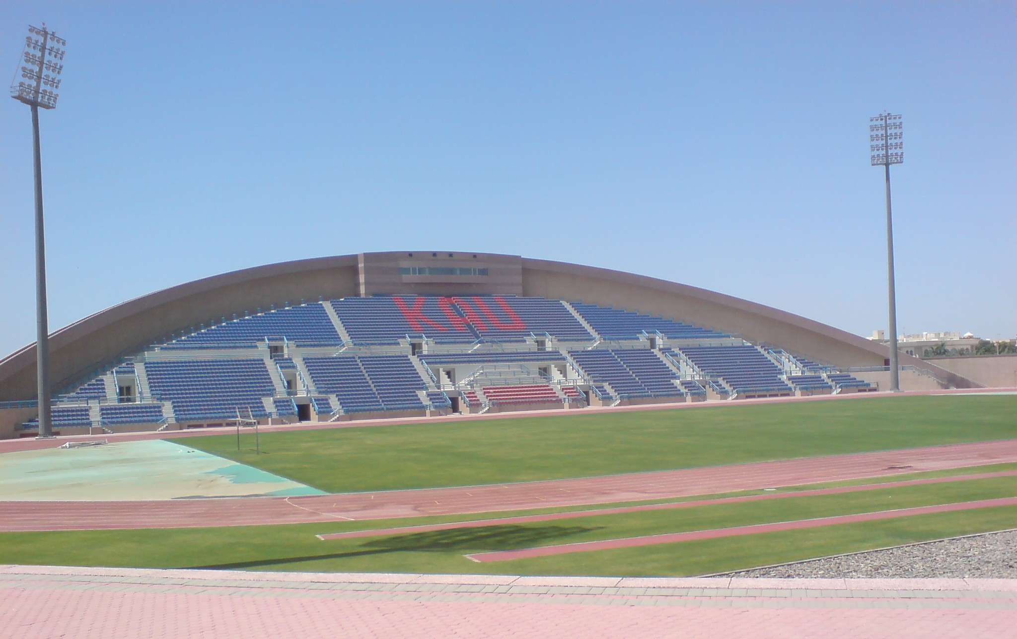 King Abdulaziz University stadium. taken by Ammar Shaker